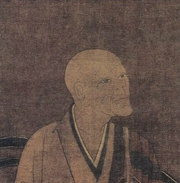 Image of Tettsū Gikai, a 13th century zen monk